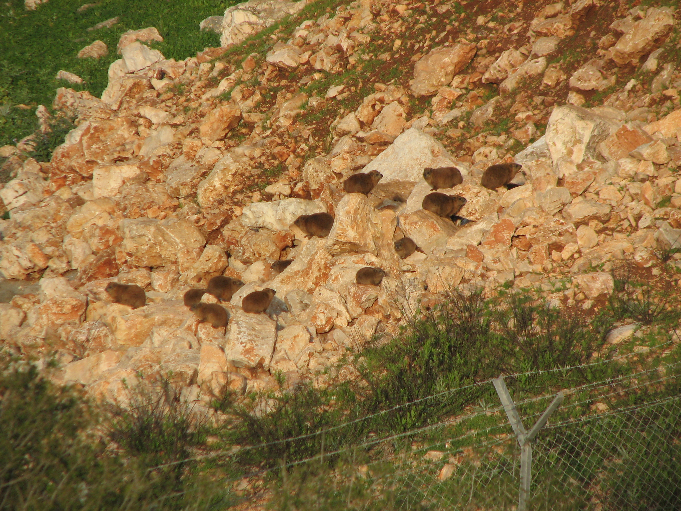 A colony of rock hyrax (Procavia capensis syriacus) in northern Israel